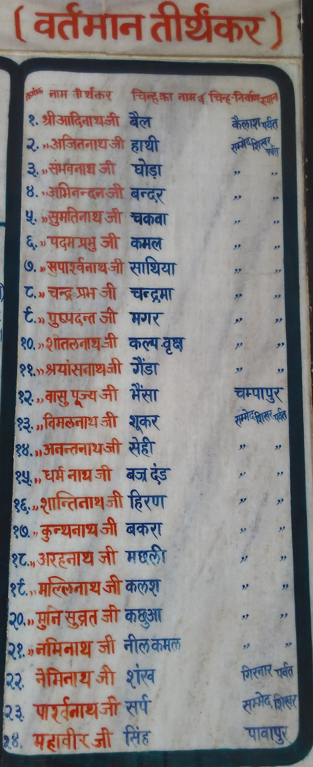 Stella mentioning 24 Tirthankaras of present half cycle of time